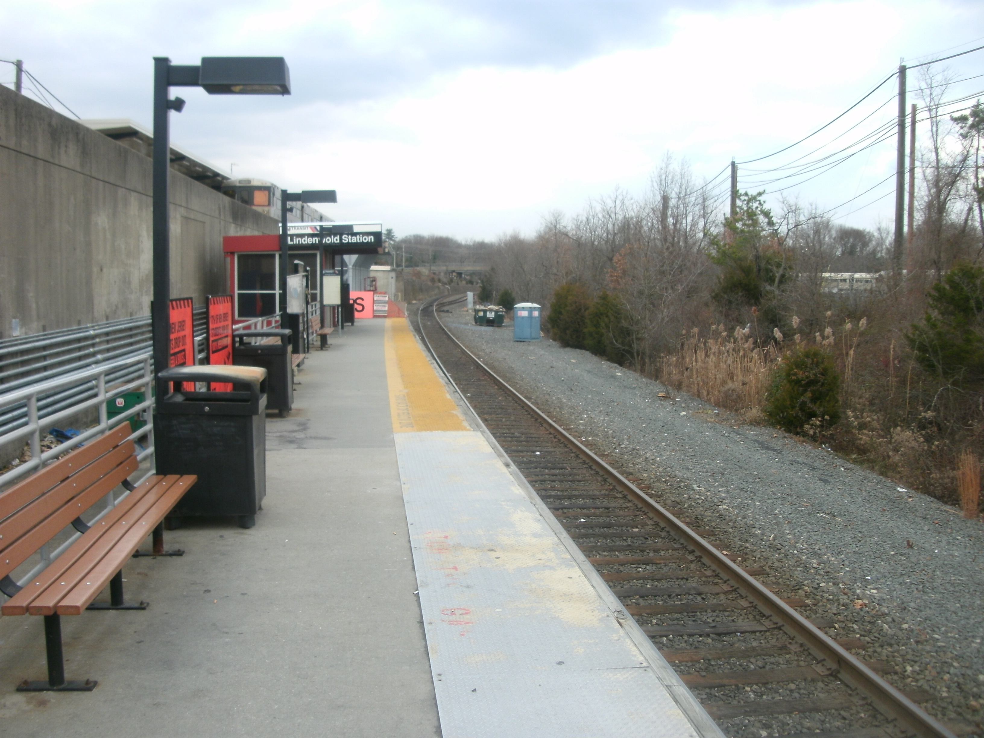 Atlantic City Line platform at Lindenwold station in December 2011